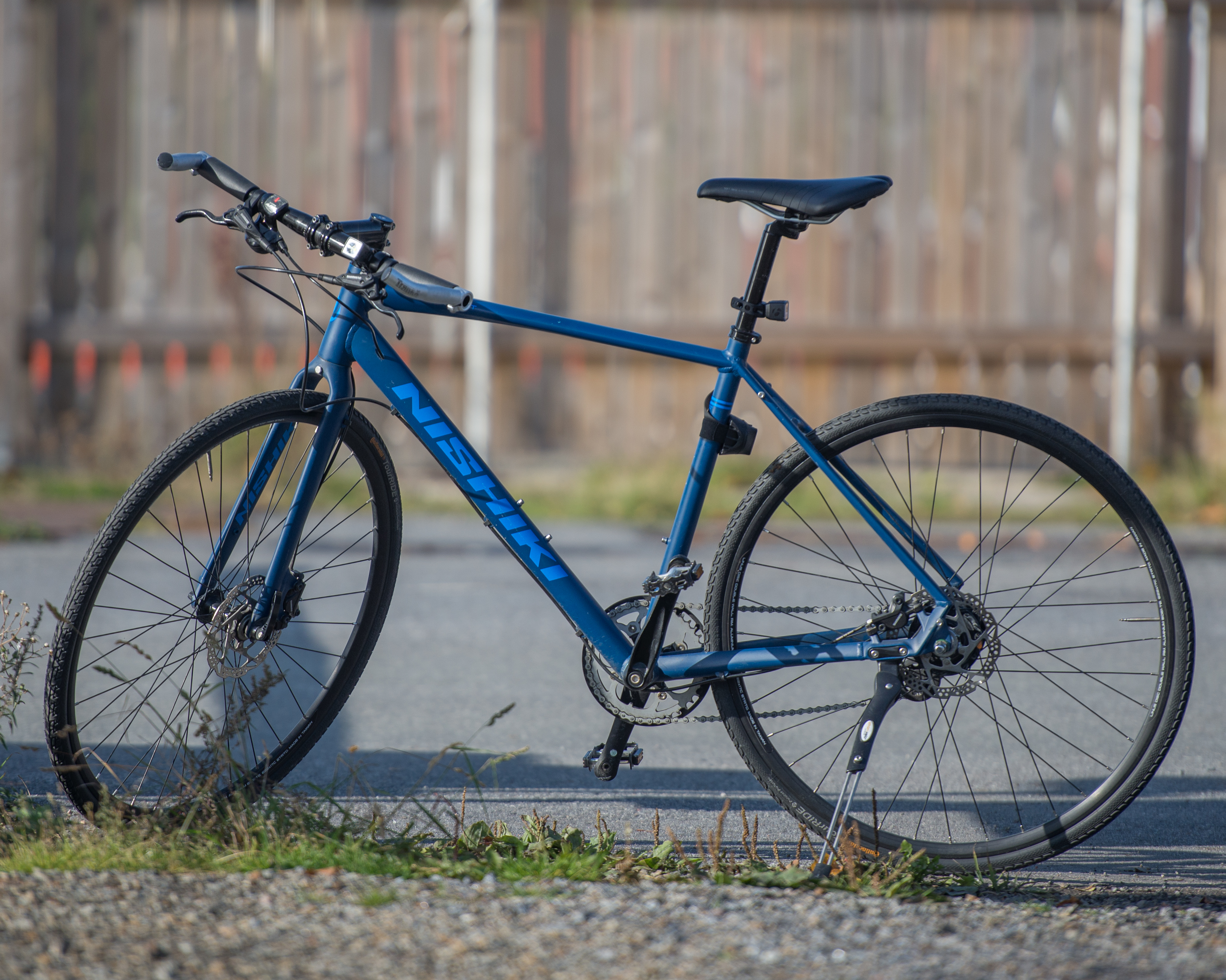 NIshiki pro eight.